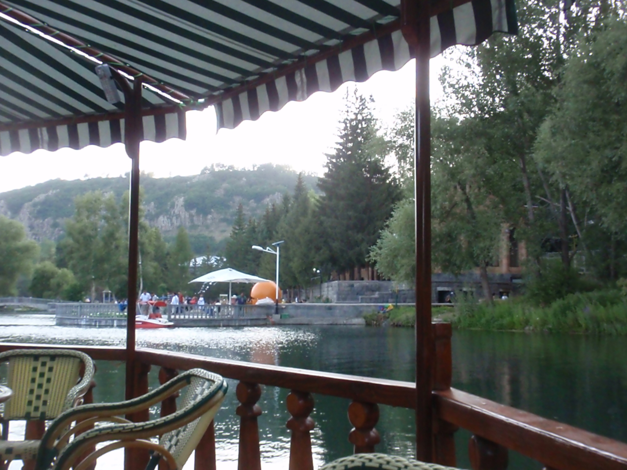 Jermuk city (Vayots Dzor province, Republic of Armenia)